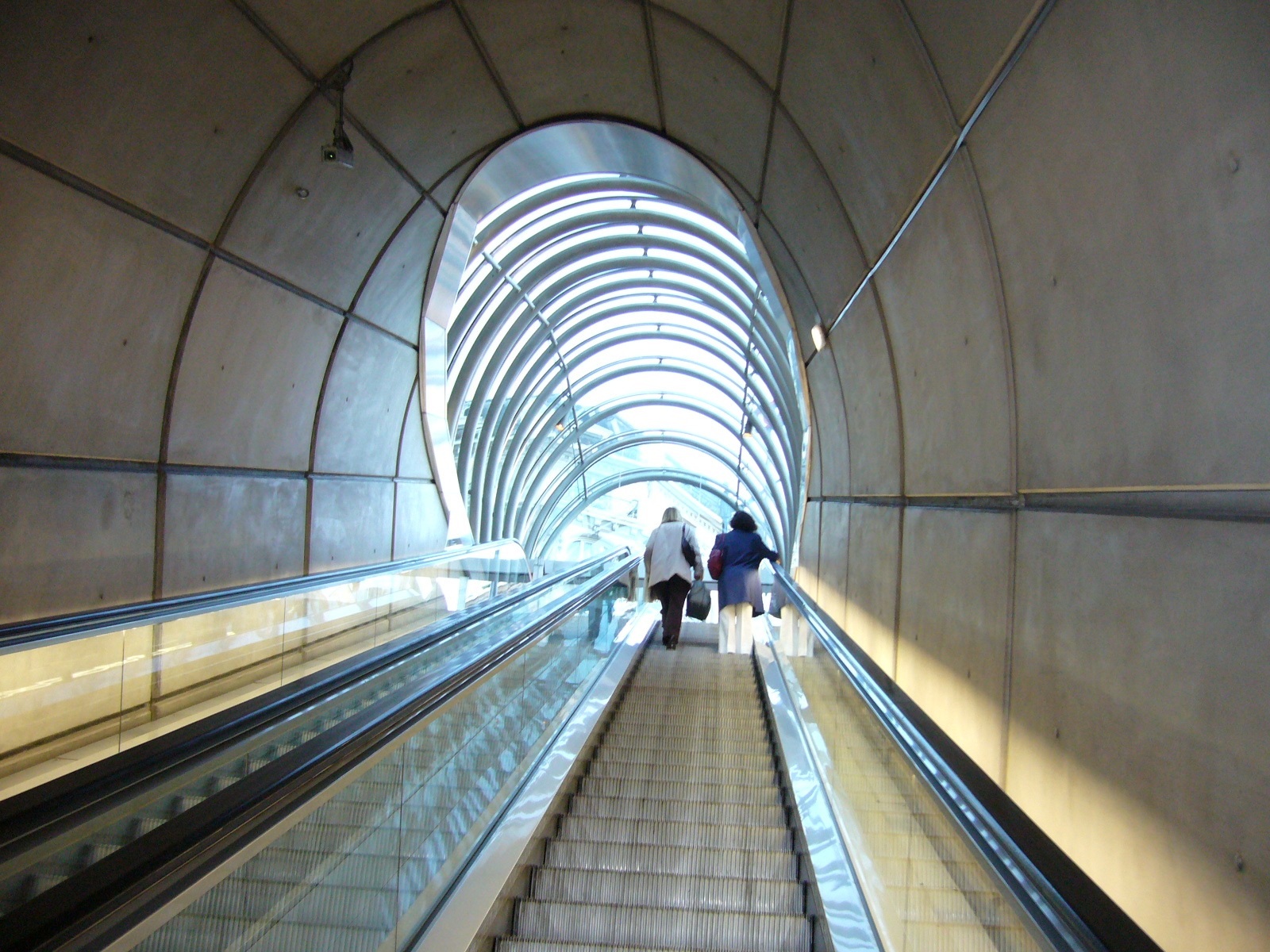 Metro Bilbao, exit and fosterito from behind 23 nov 2006.